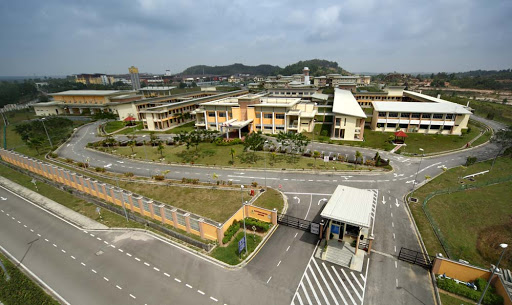 Building of MRSM Johor Bahru